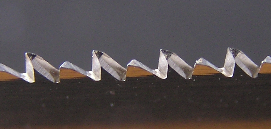 Teeth of Katabi